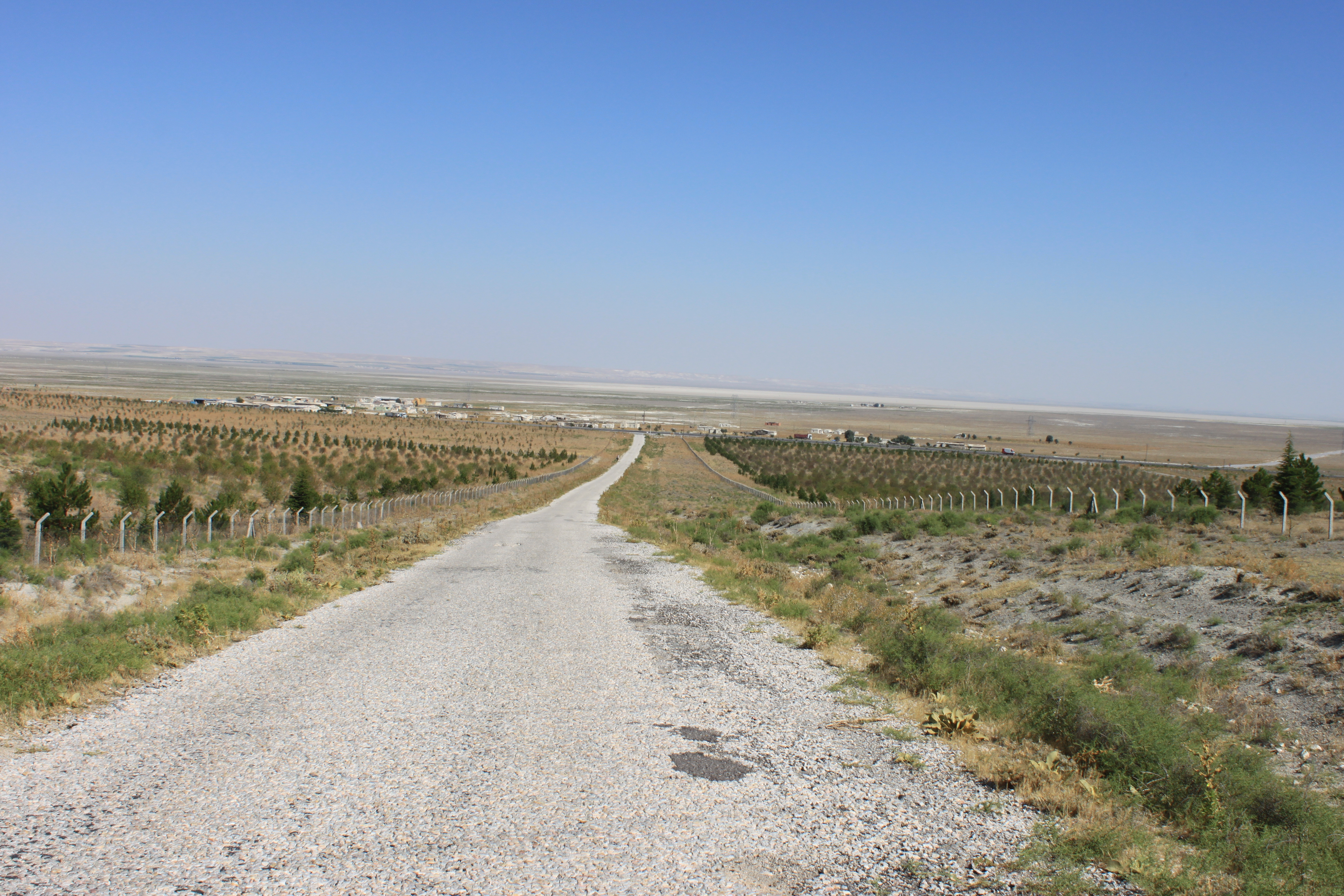 Karapınar; Looking north to the Acı Göl, a salt lake, which is partially dry.